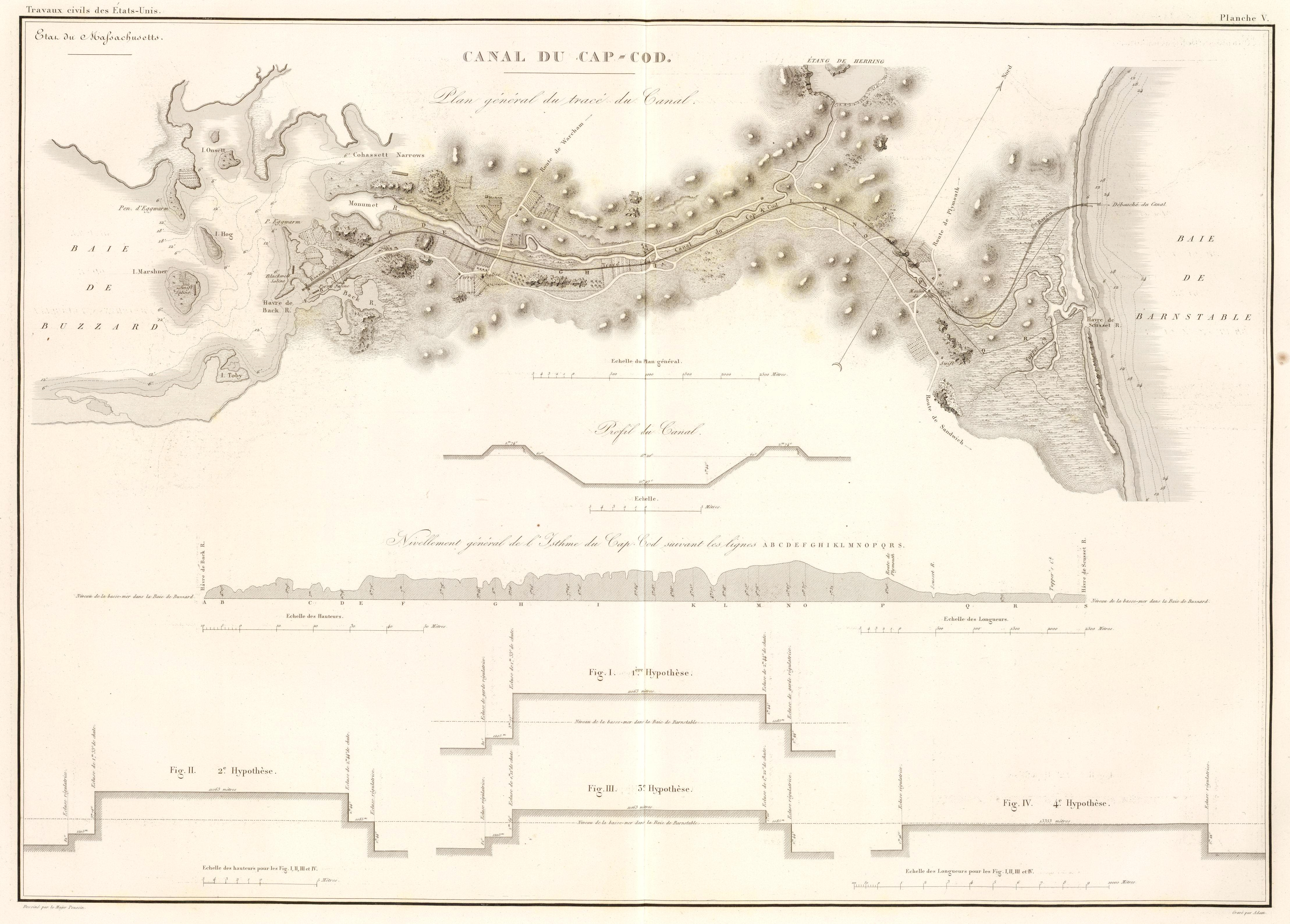 Map of a proposed plan for a Cape Cod Canal, Massachusetts, USA; published 1834. Several such plans were drawn up circa 1830; none were built.